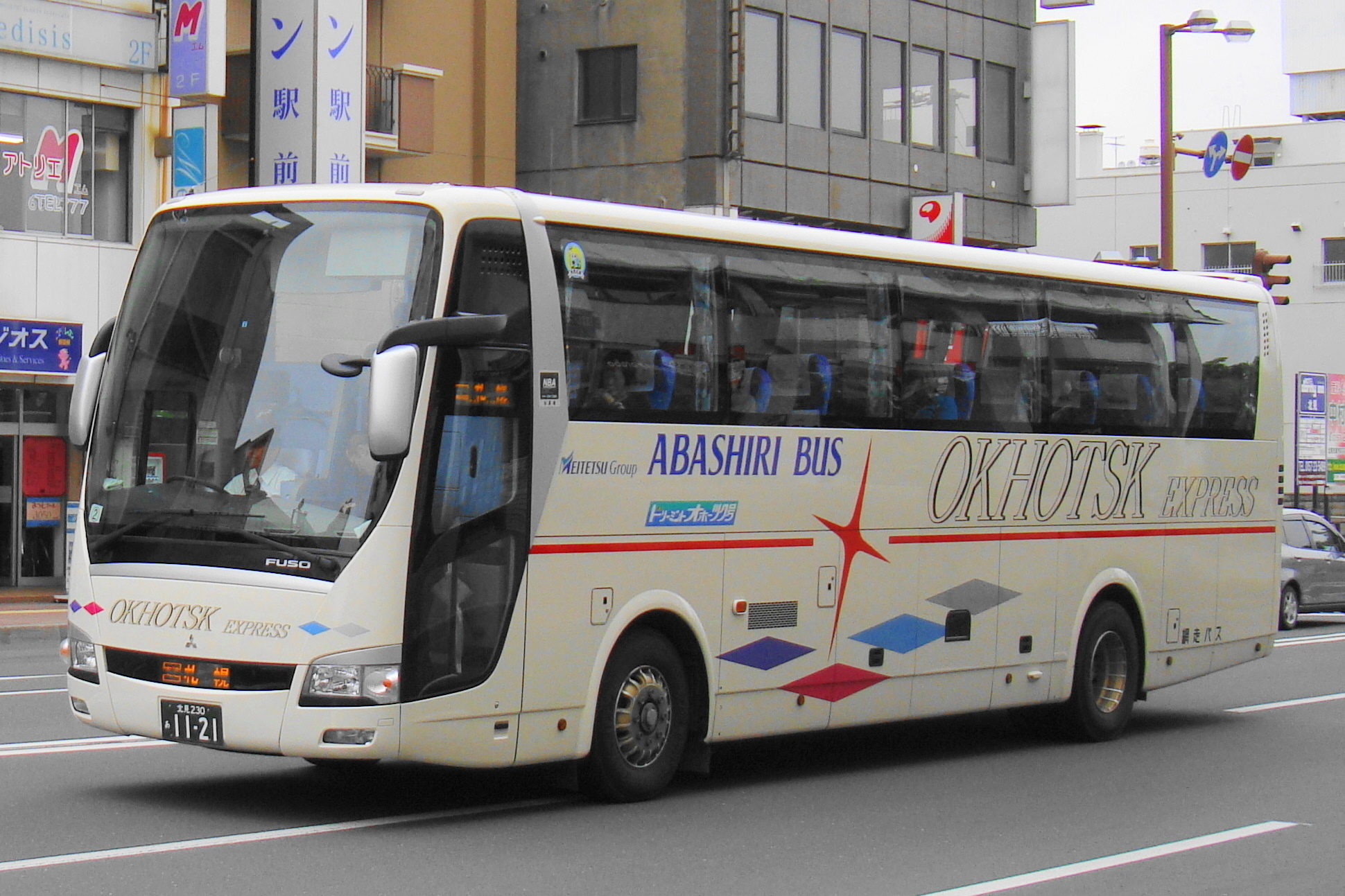 "Dreamint Okhotsk gō" Abashiri to Sapporo